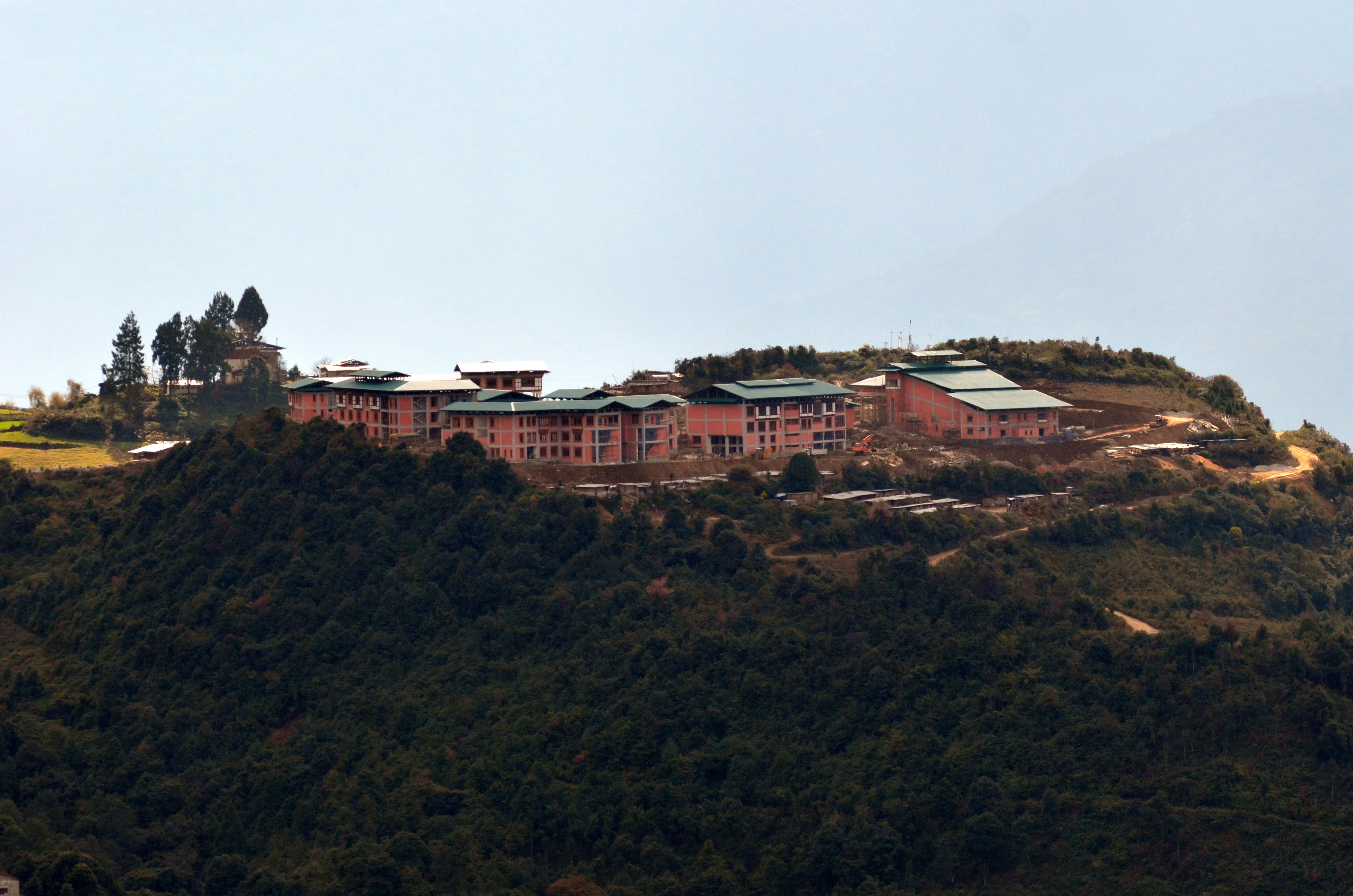 View of the main academic buildings of the College of Language and Culture Studies (CLCS), Taktse, Trongsa Dzongkhag, Bhutan